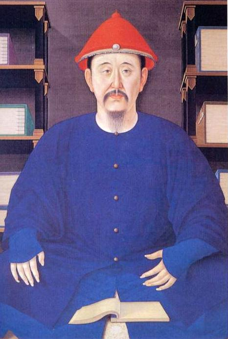 The Kangxi Emperor of China at age 45, painted in 1699 in his library